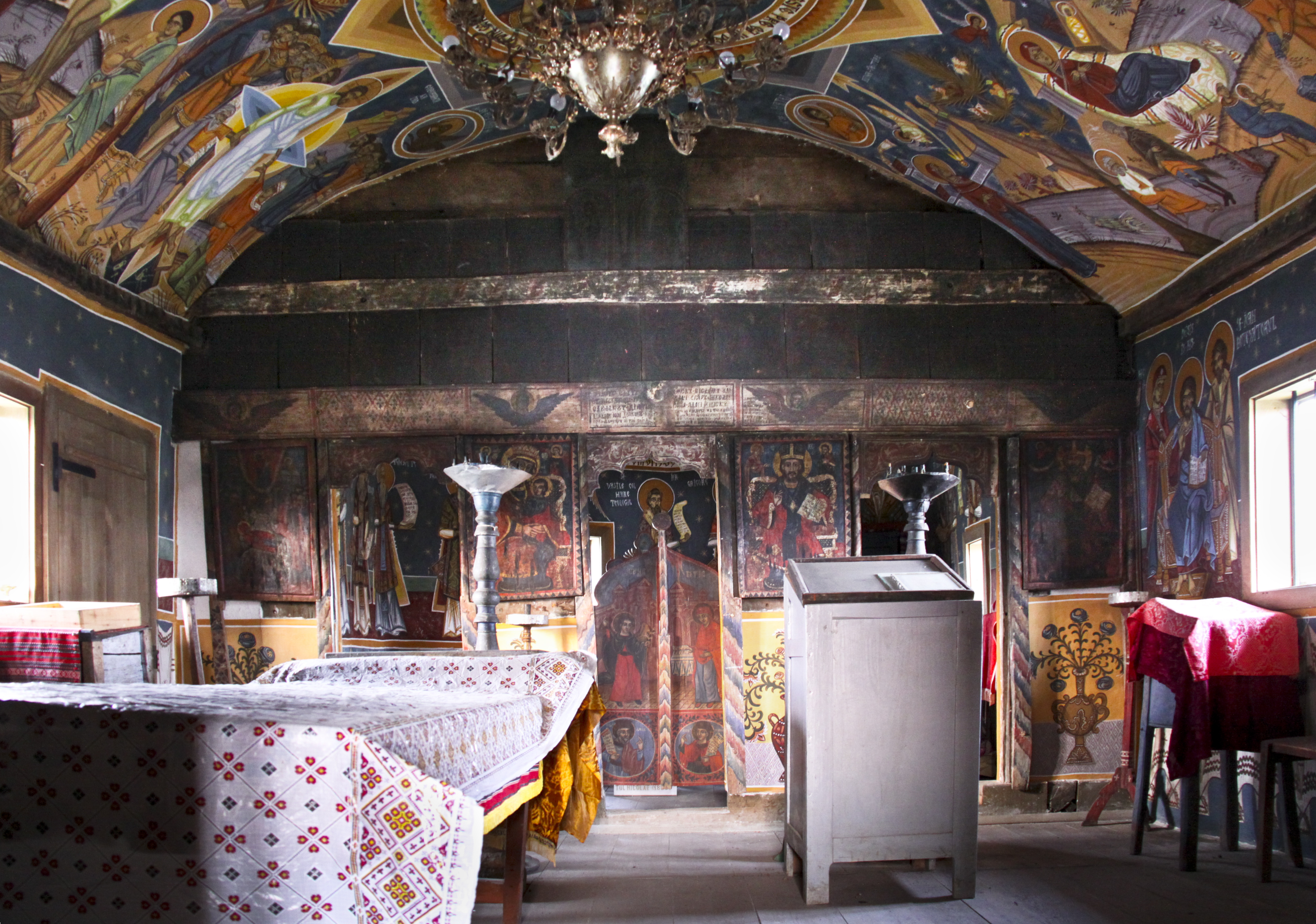 Valea Mare (Berbeşti), Vâlcea county, Romania: the wooden church.